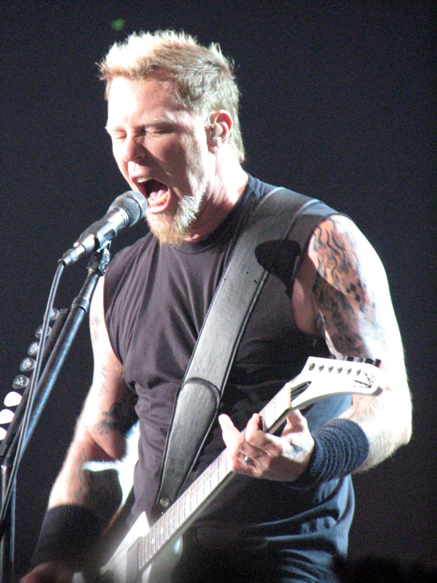 Hetfield in 2008